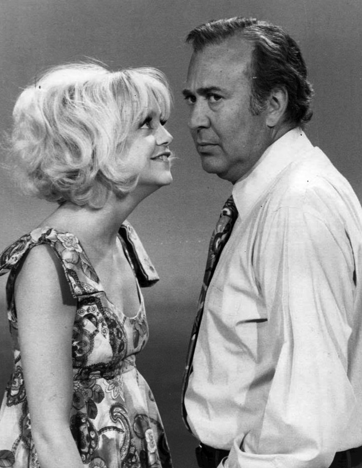 Publicity photo of Goldie Hawn and Carl Reiner from the television program Rowans & Martin's Laugh-In.